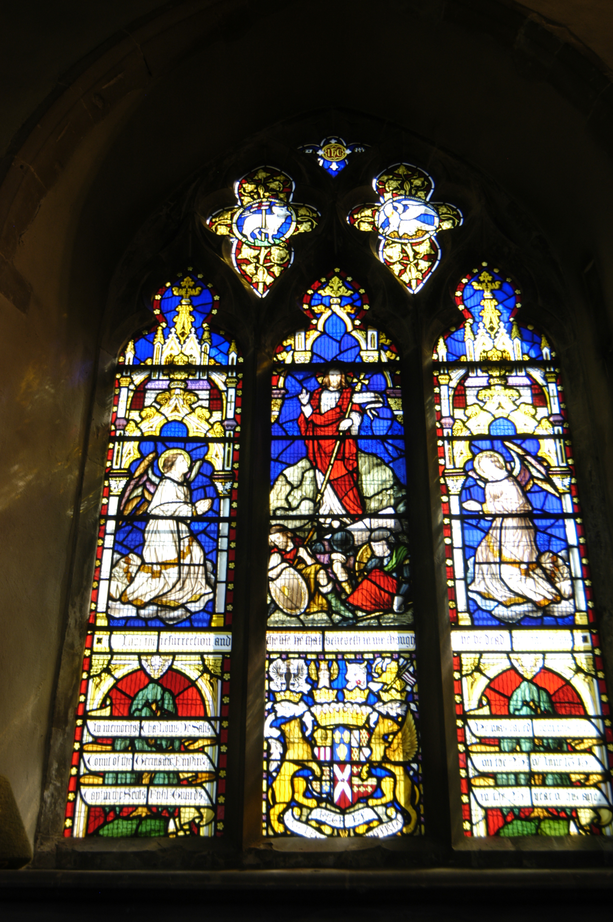 Photograph (by me, R. de Salis, Rodolph (talk) 23:36, 21 July 2015 (UTC)) of a window by Thomas Willement, 1845, at church of S.S. Peter & Paul, Harlington, Middlesex. An Ascension, for Charles Louis de Salis.